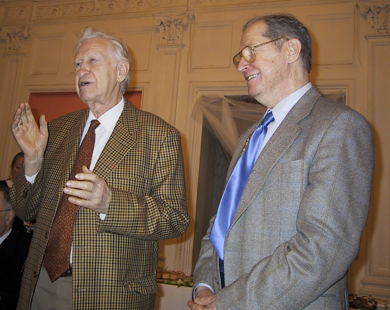 Vasili Smyslov and Juri Averbakh at Averbakh's 80th birthday